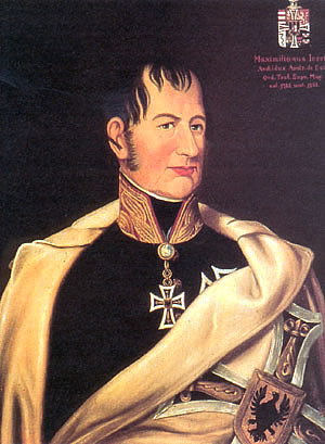 Portrait of Maximilian of Austria–Este (1782-1863)